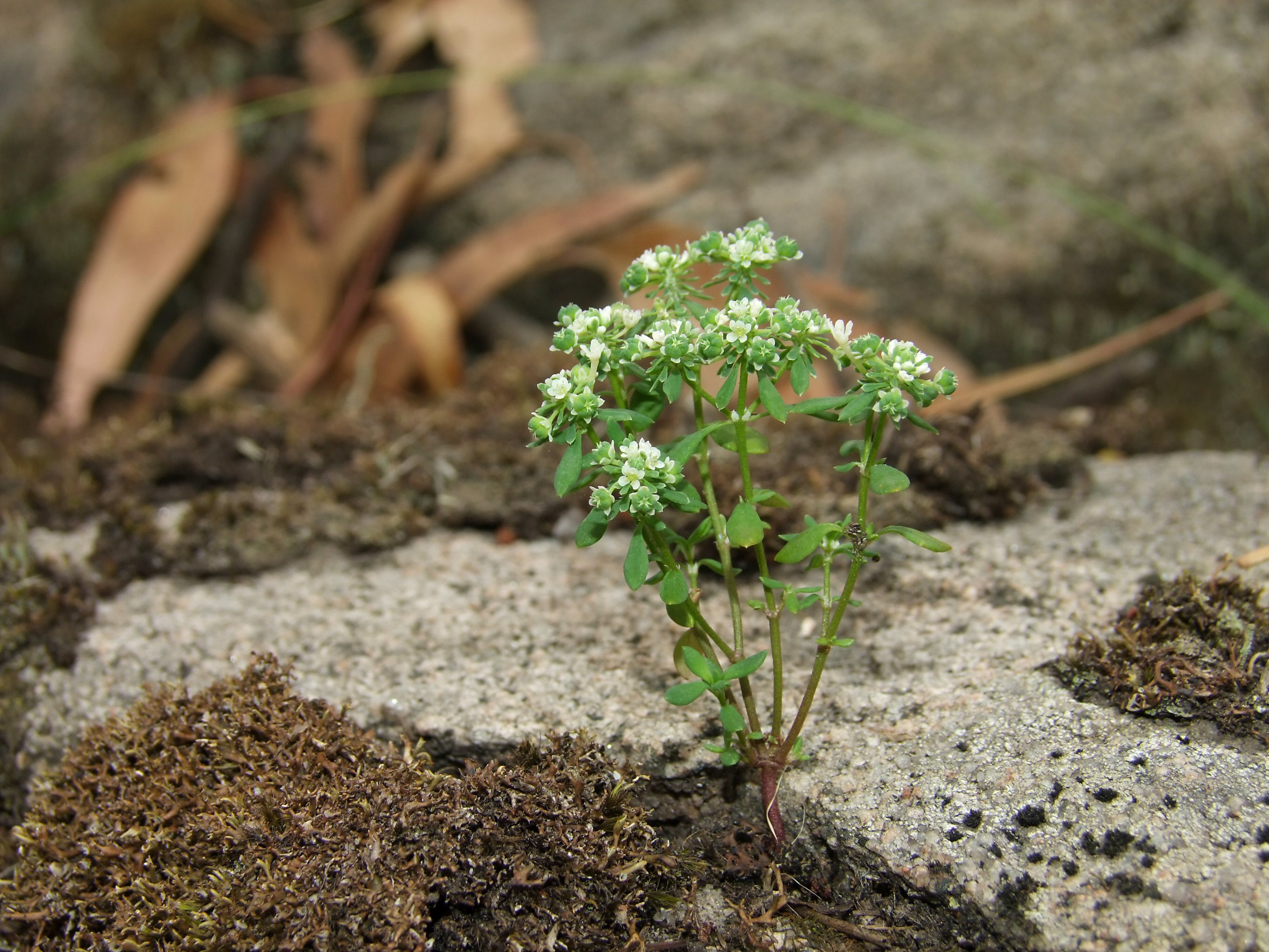 Herb, Small Poranthera microphylla growing on rock in Baluk Willam Nature Conservation Reserve, Belgrave South